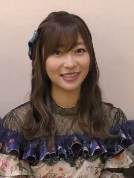 Member of girl group HKT48 Rino Sashihara in 2018